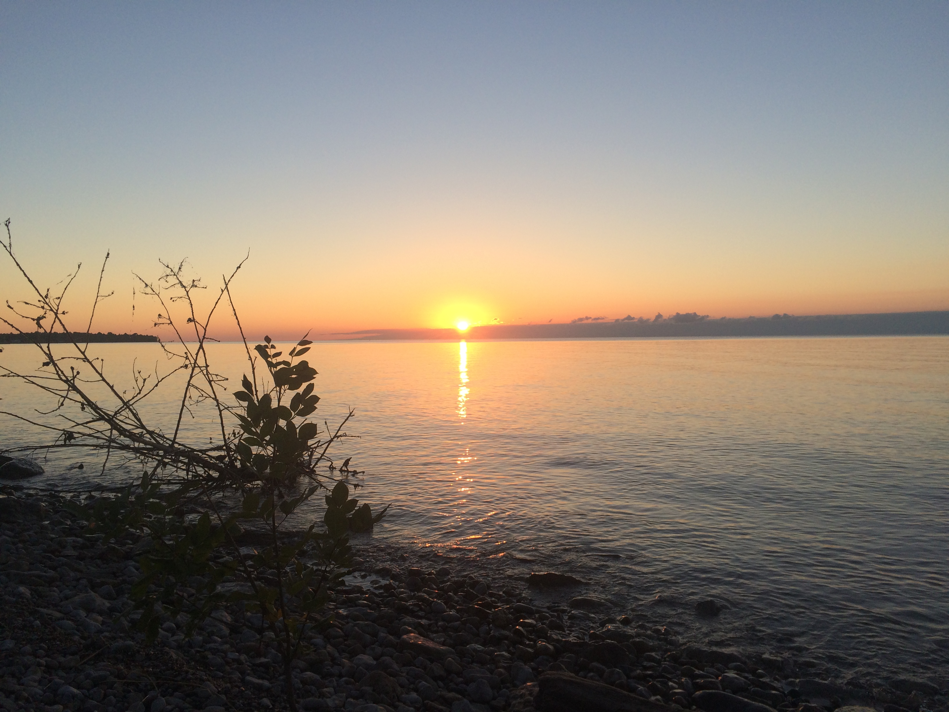 August Sunset from Rustic Campground at J.W. Wells State Park